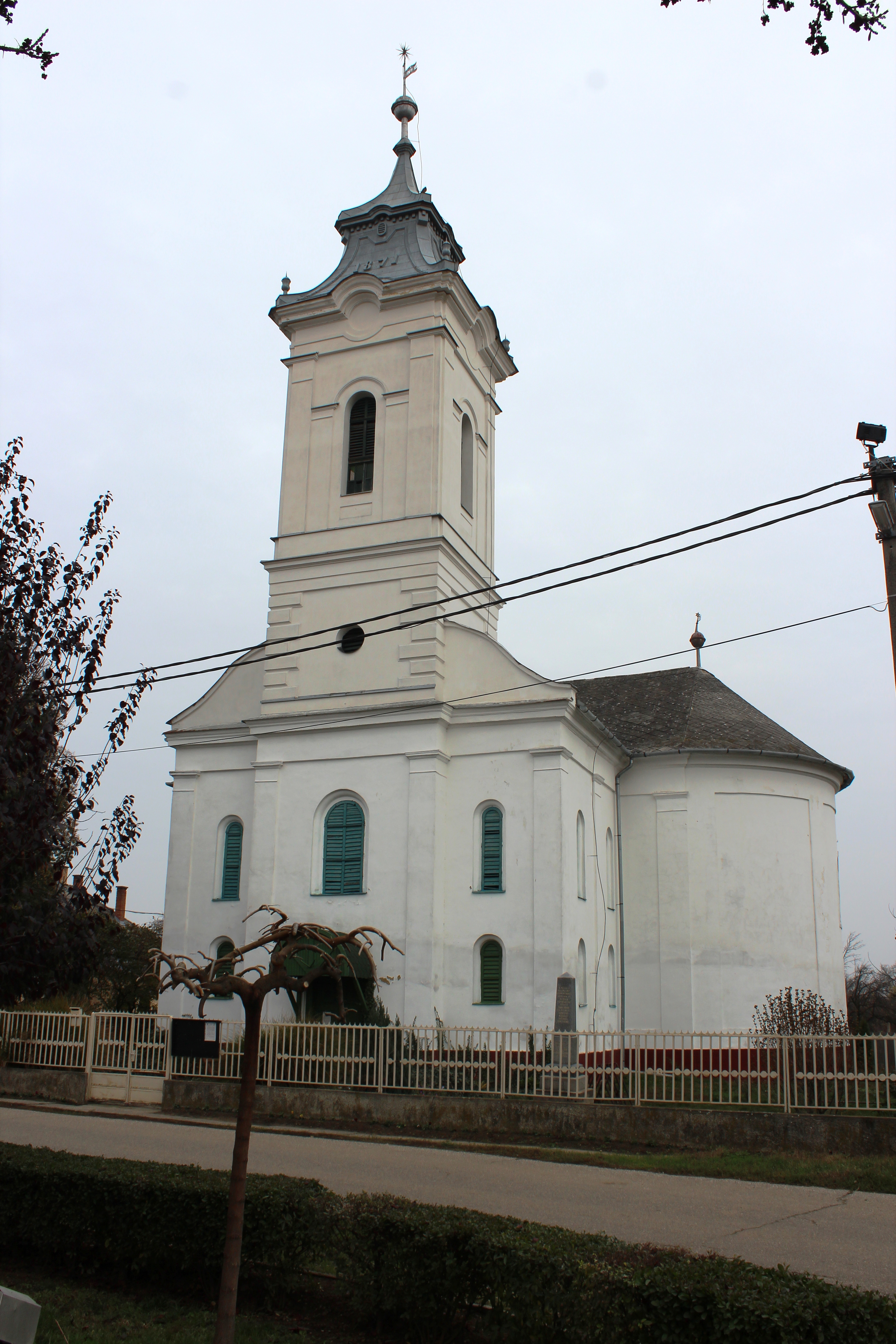 Reformed church in Győrtelek, Hungary This is a photo of a monument in Hungary. Identifier: 8414